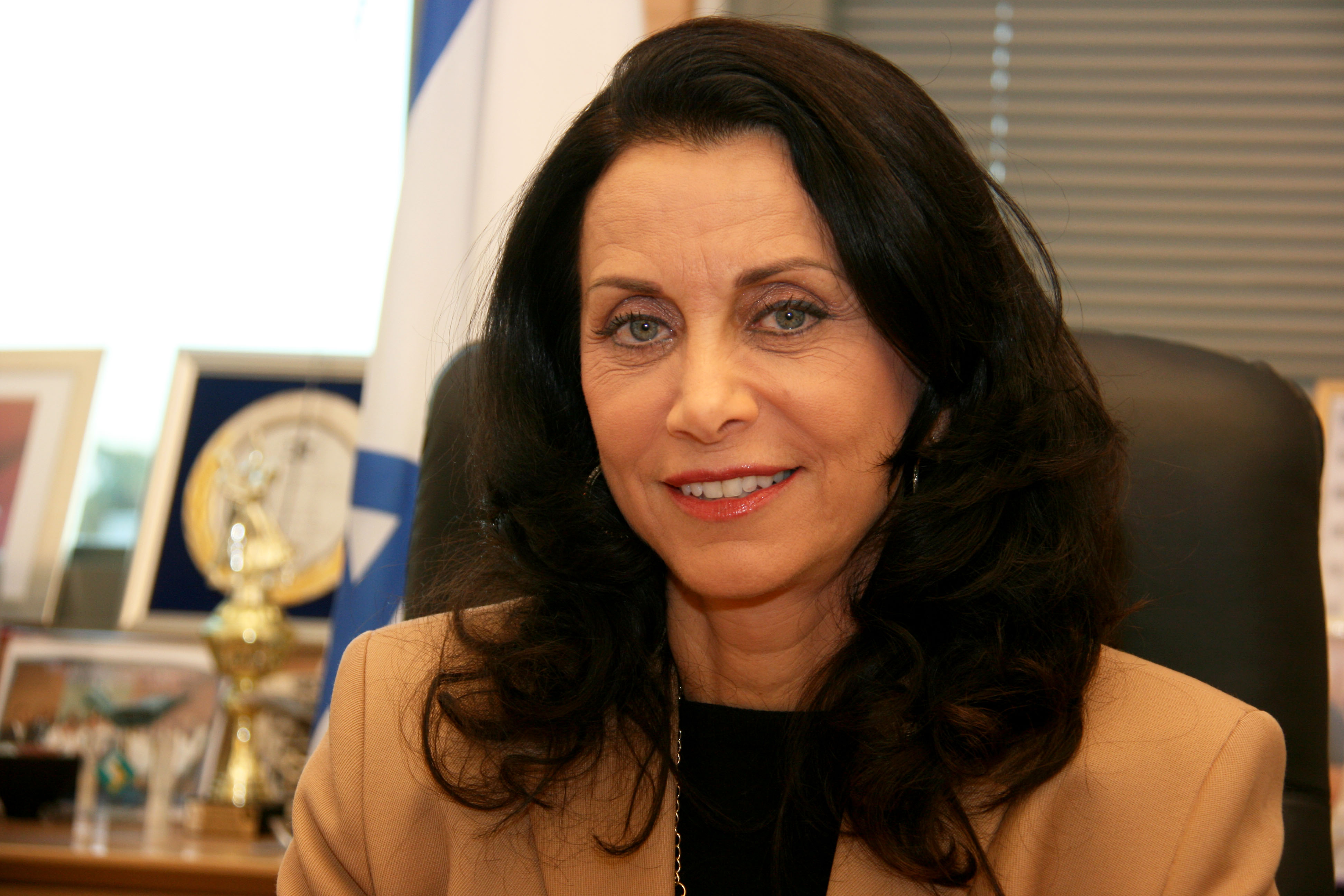 MK Ronit Tirosh, Member of Kadima Party. Photo by: Itzik Edri, Kadima Party PR Team